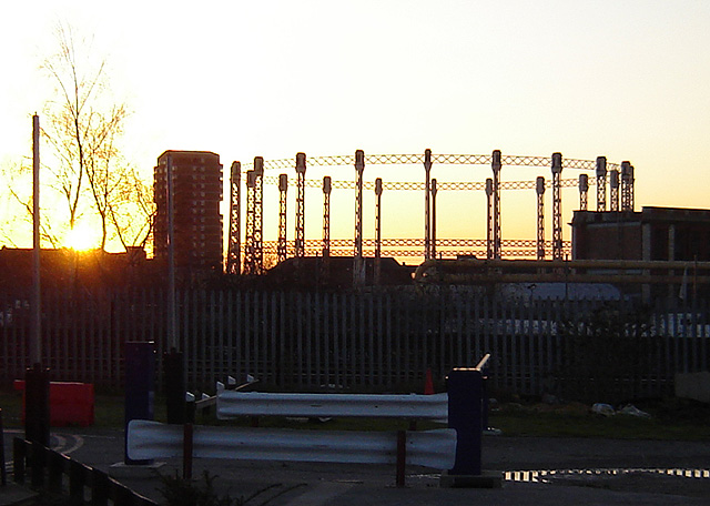 Imperial Wharf gasworks, Chelsea, London. 21 January 2006. Photographer: Fin Fahey.